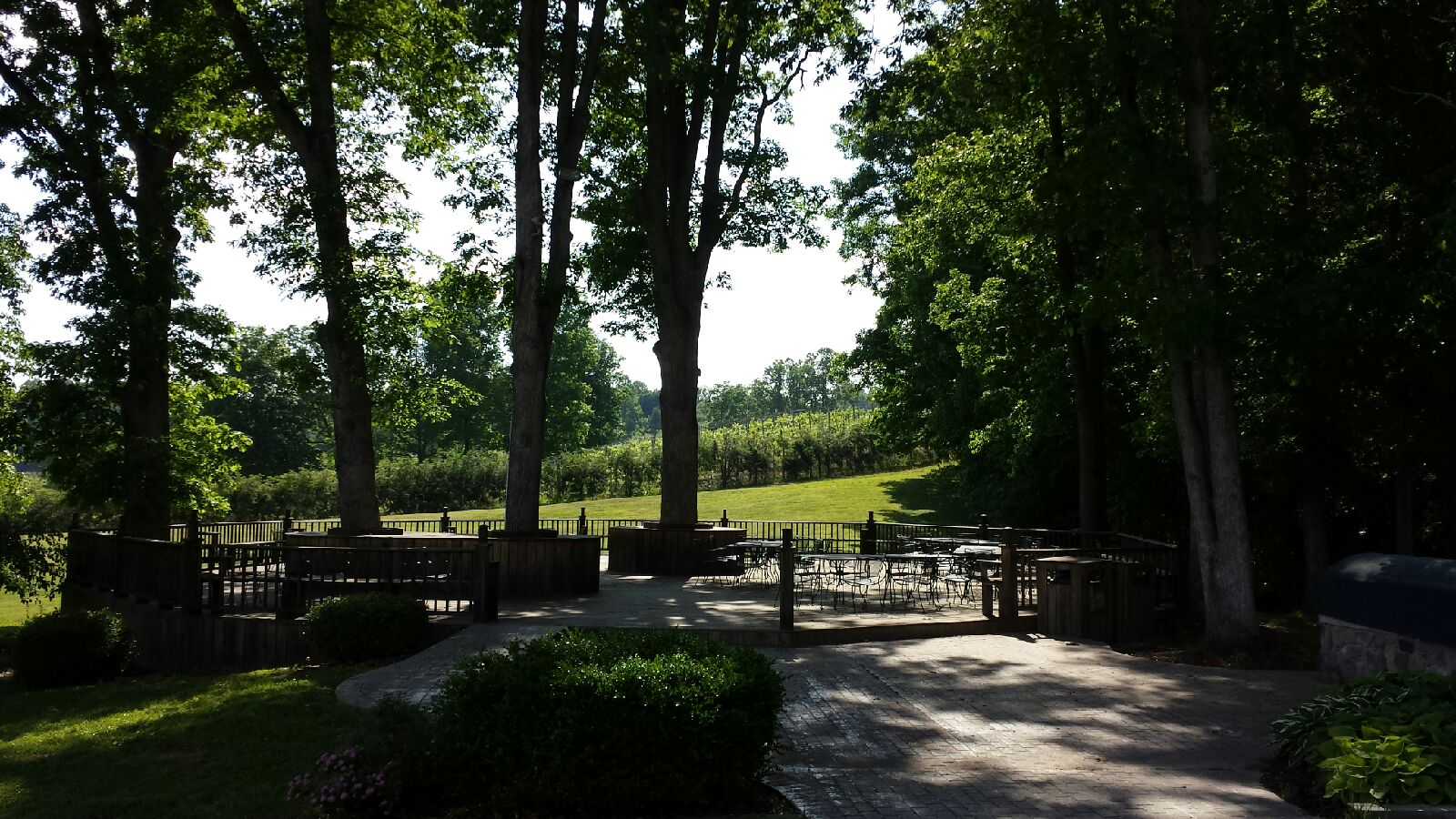 Daniel Vineyards' tree deck, with vineyards in the background in Crab Orchard, West Virginia.